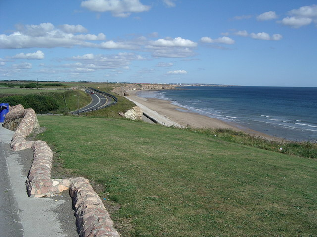 Seaham coastline Looking north to Sunderland which can be seen in background on right hand side.